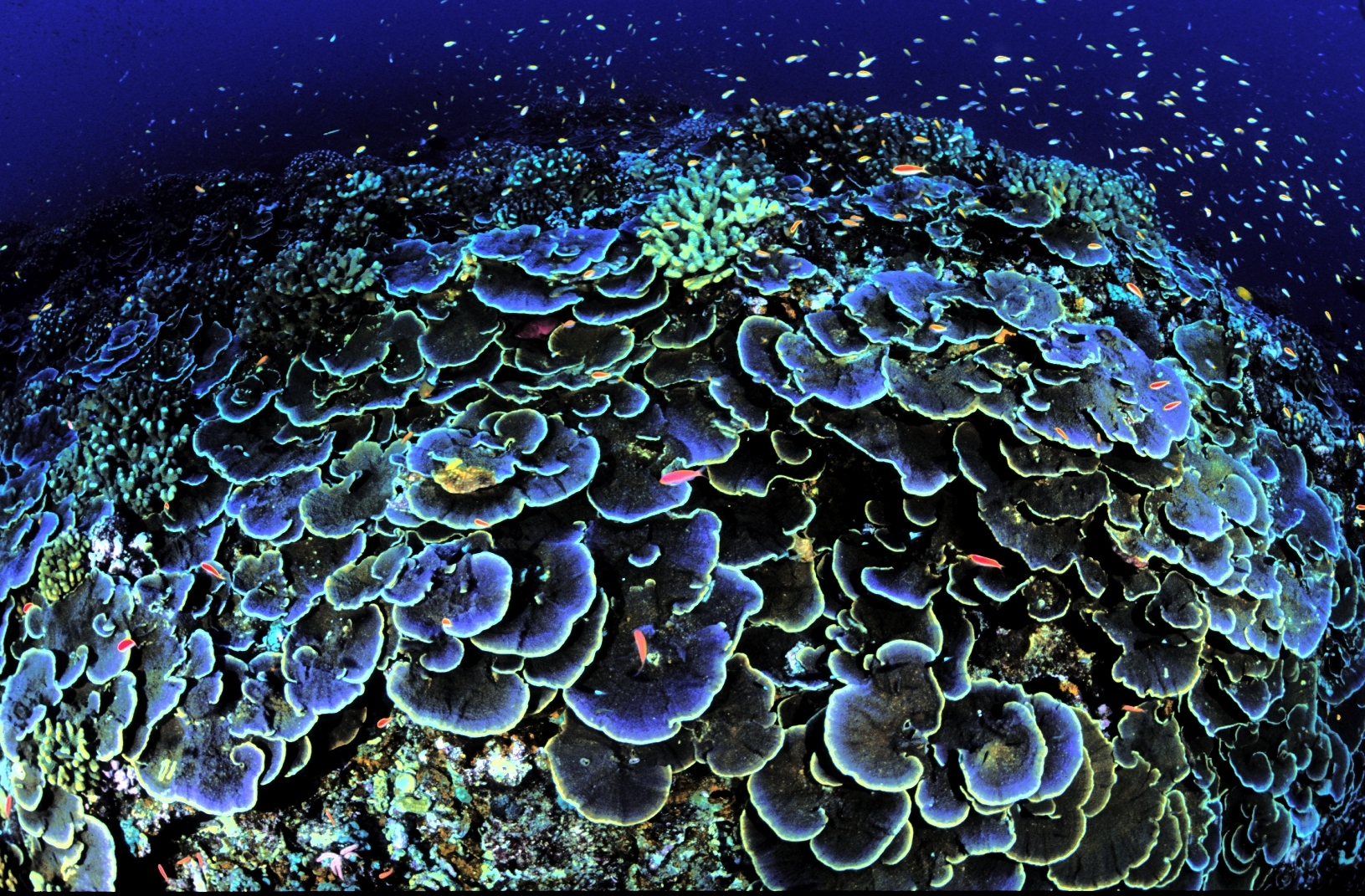 Sworls of Montipora aequituberculata, a core coral, attract fish at Jarvis Island National Wildlife Refuge in the Pacific, about 1,300 miles southwest of Honolulu. (Jim E. Maragos/USFWS)